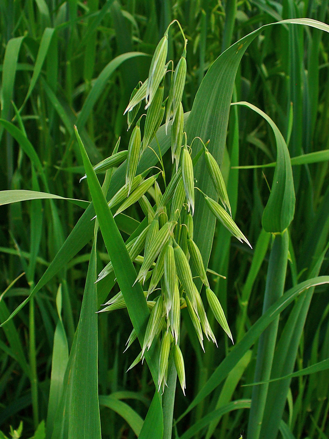 Avena sativa, Poaceae, Common Oat, infrutescence; Stutensee, Germany. The fresh aerial parts of the blooming plants are used in homeopathy as remedy: Avena sativa (Aven.)